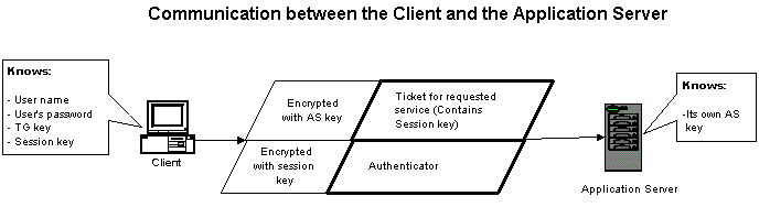 play